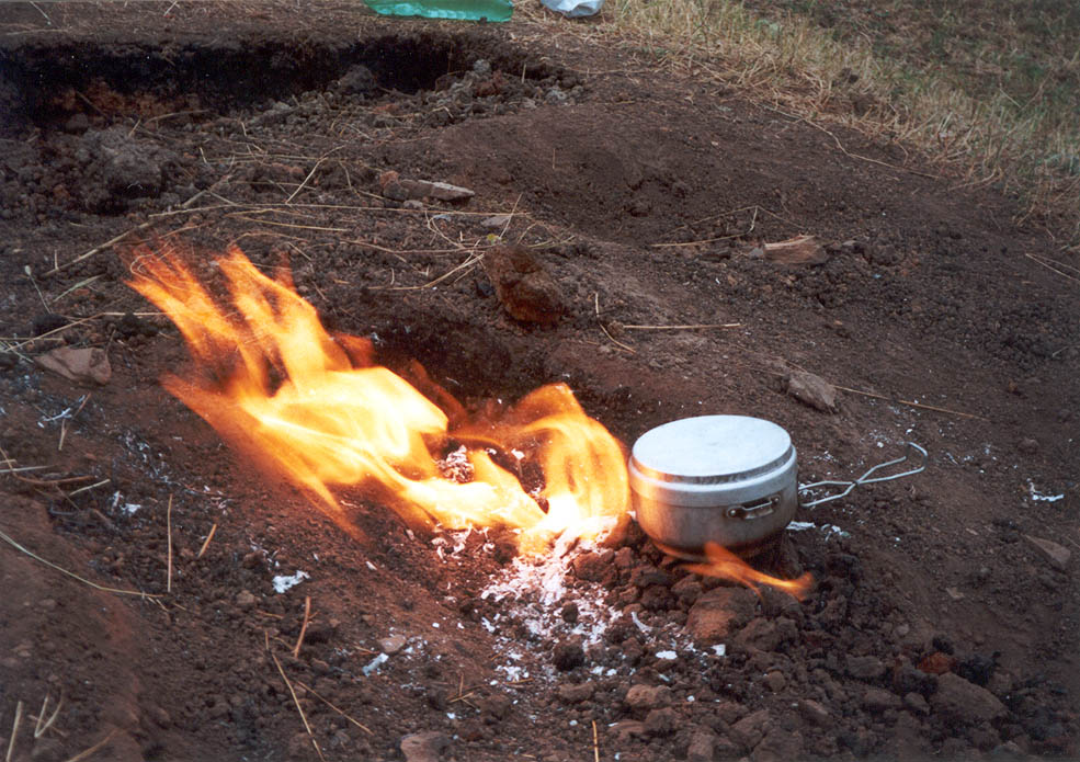 Freely burning natural gas in Romania, near Lopatari (Judetul Buzau). On the fire, a tourist can cook a meal. Similar fires can be seen in Turkey, south of Antalya.